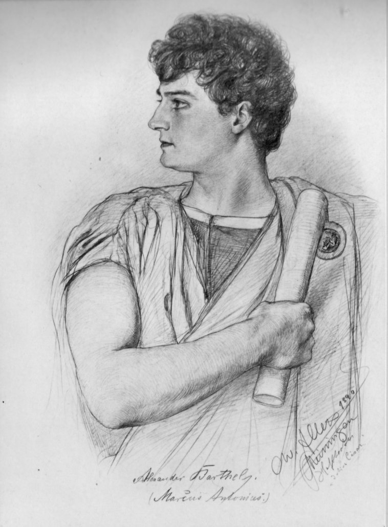 Actor Alexander Barthel as Marc Antonius